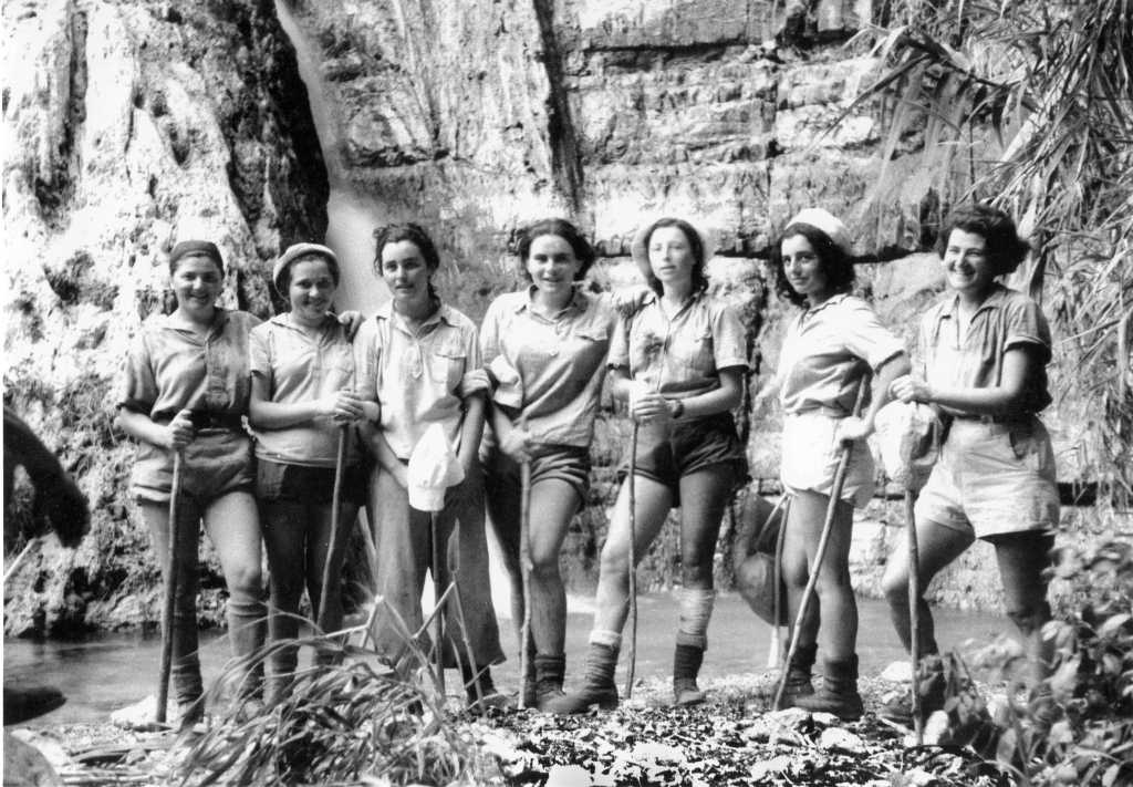 The Palmach, Settlements in Israel